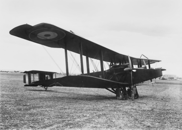 Ottoman Empire: Palestine, North Palestine, Haifa. A side view of a Handley-Page 0/400 aircraft of No 1 Squadron, Australian Flying Corps.